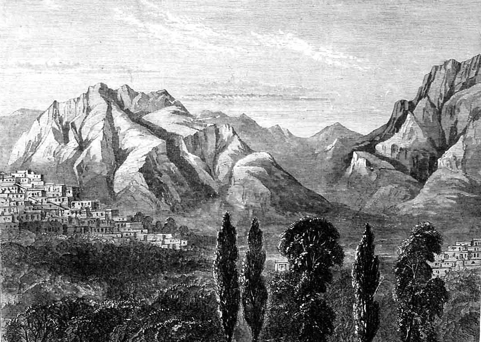 A view of Kermanshah from north toward south, mid 19th century